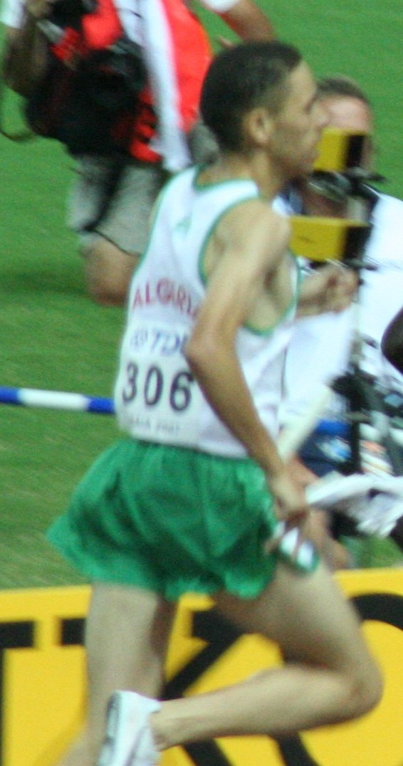 World Athletics Championships 2007 in Osaka: Tarek Boukens